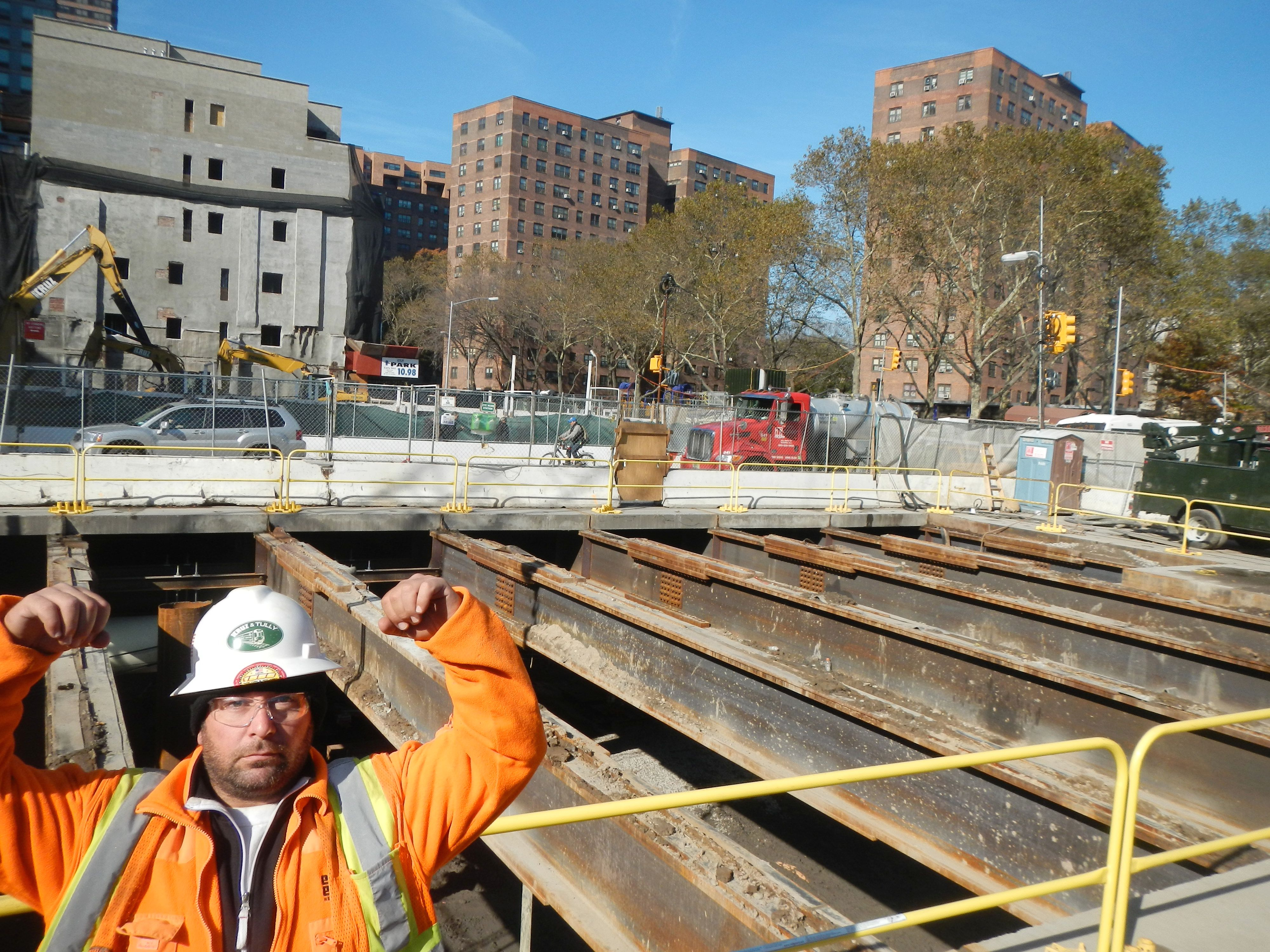 Looking northwest at construction of 96th St station on a sunny midday.